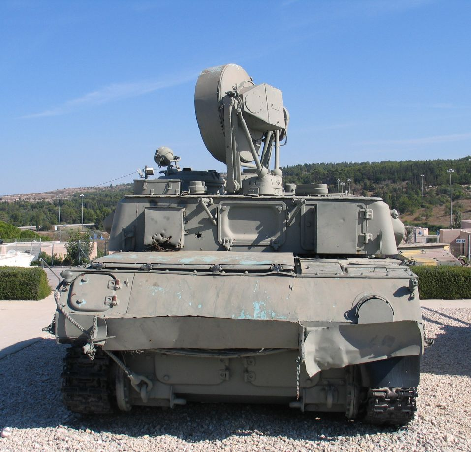 Description: Soviet ZSU-23-4 self propelled air defence cannon in Yad la-Shiryon Museum, Israel. 2005. Source: Photo by me, User:Bukvoed.